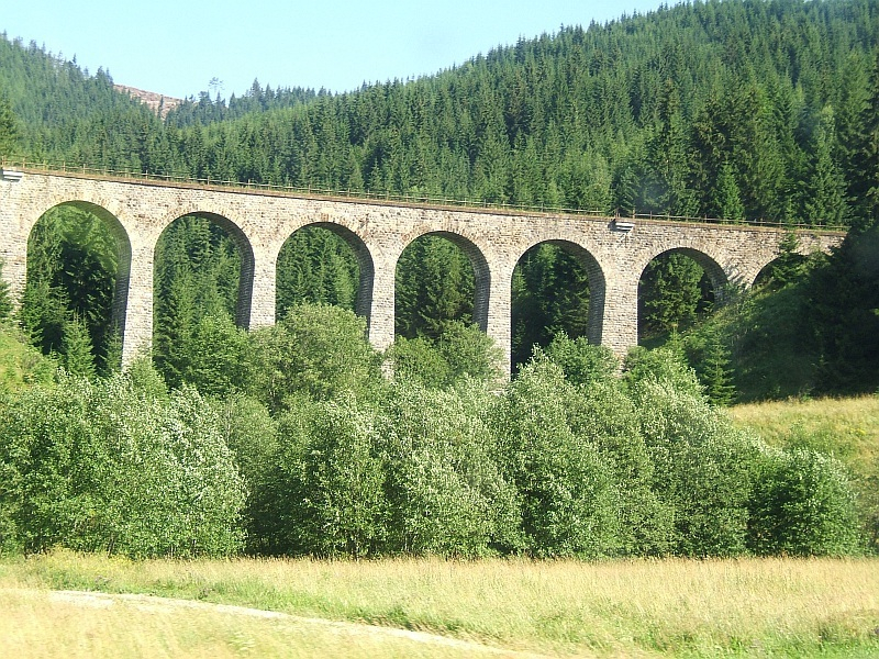 railway viaduct - Telgárt